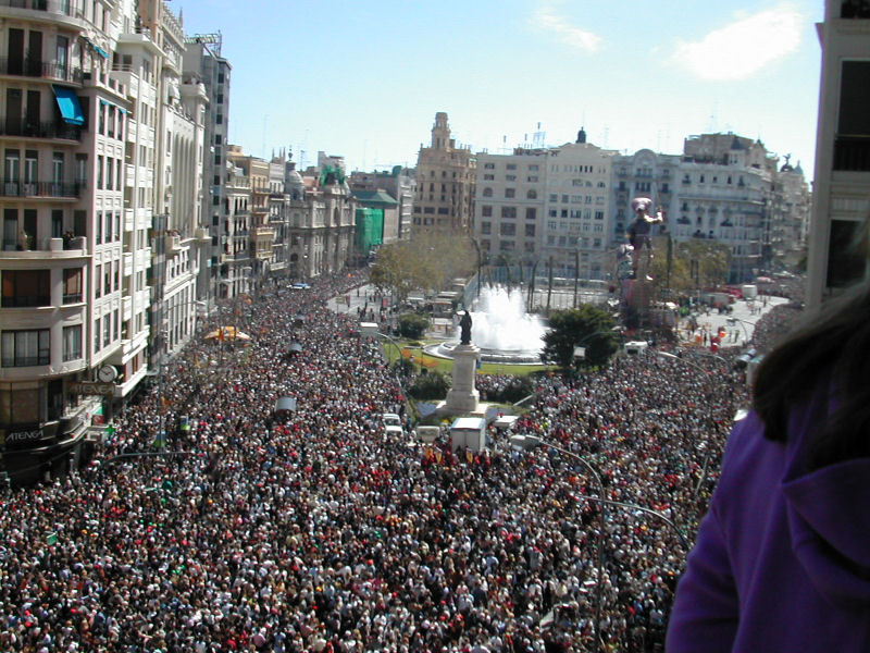 The crowd gathers in the main square waiting for Mascleta, March 2004, Valencia, Spain.